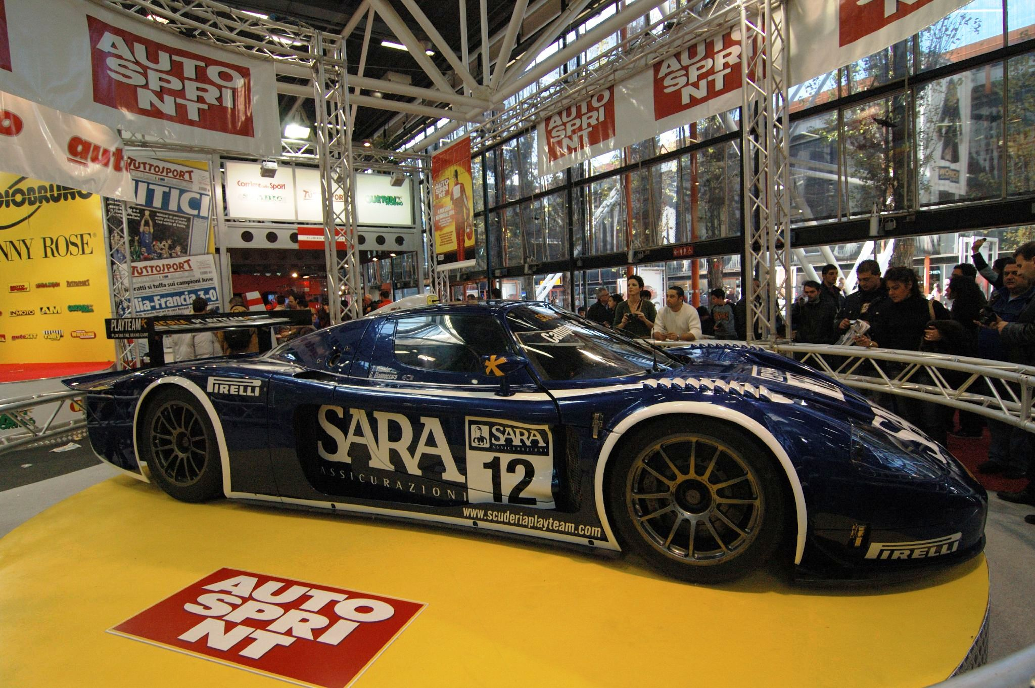 A Maserati MC12 Race car from the side